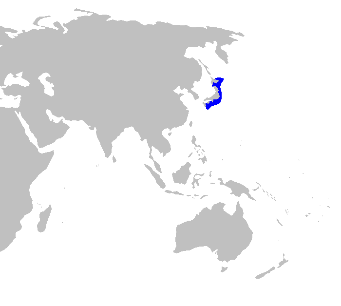 Distribution map for Centroscyllium ritteri